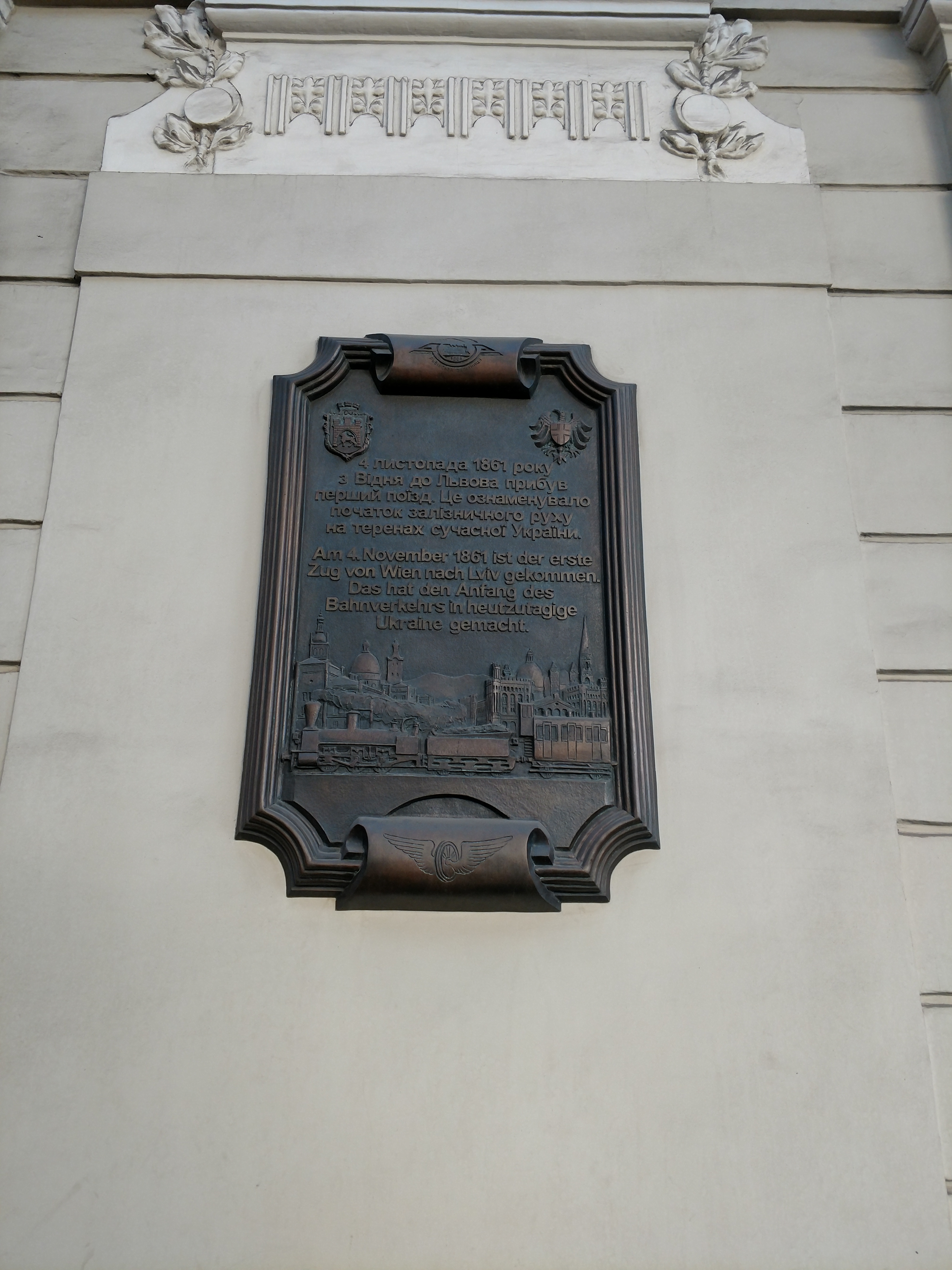 The photo of a public historical sign at Lviv Railway Station, Ukraine, saying that on the 4th of November 1861 the first train from Vienna to Lviv arrived and that this is recognized as a start of the Railway in Ukraine.